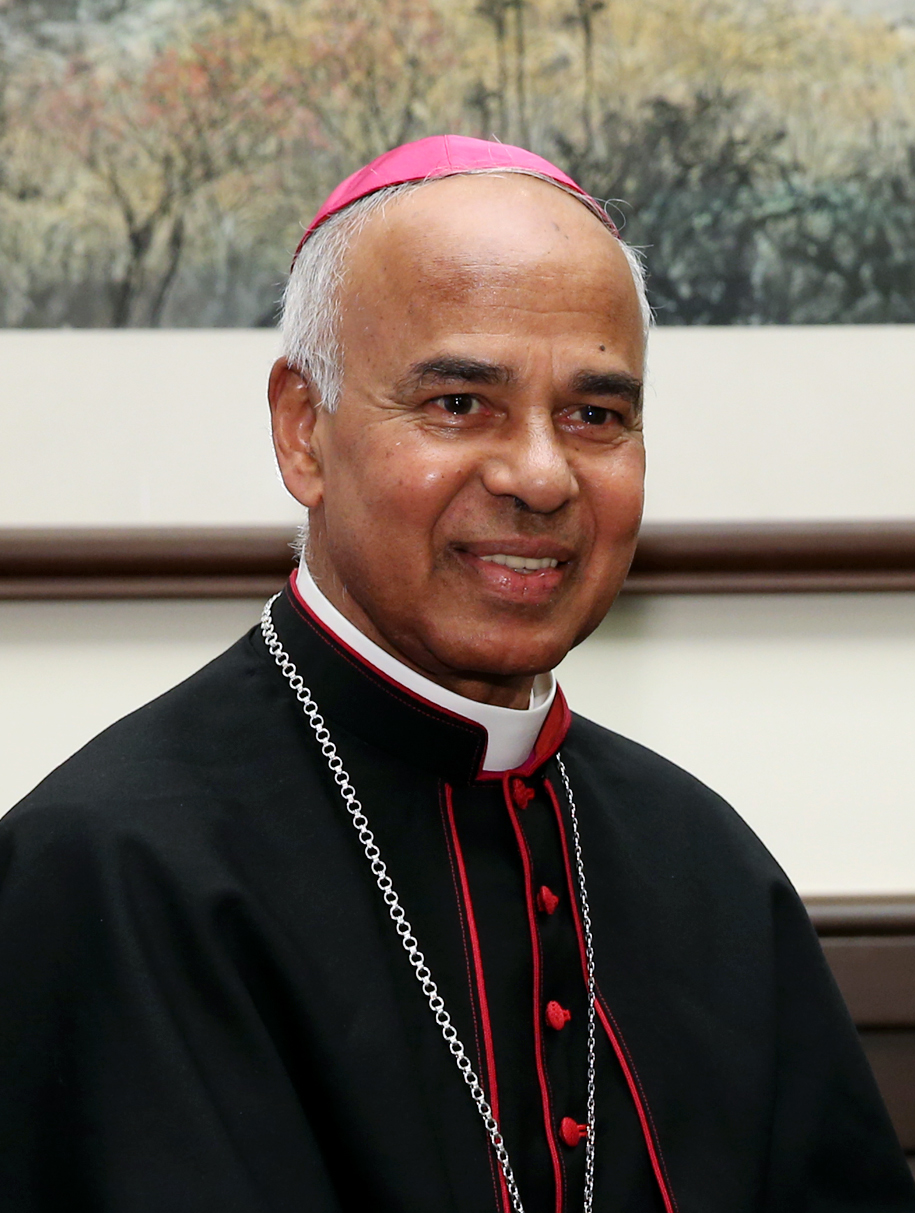 車納德總主教 Joseph Chennoth